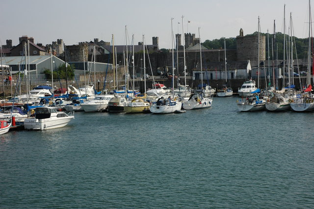 Victoria Dock, Caernarfon Caernarfon's town walls can be seen in the background.